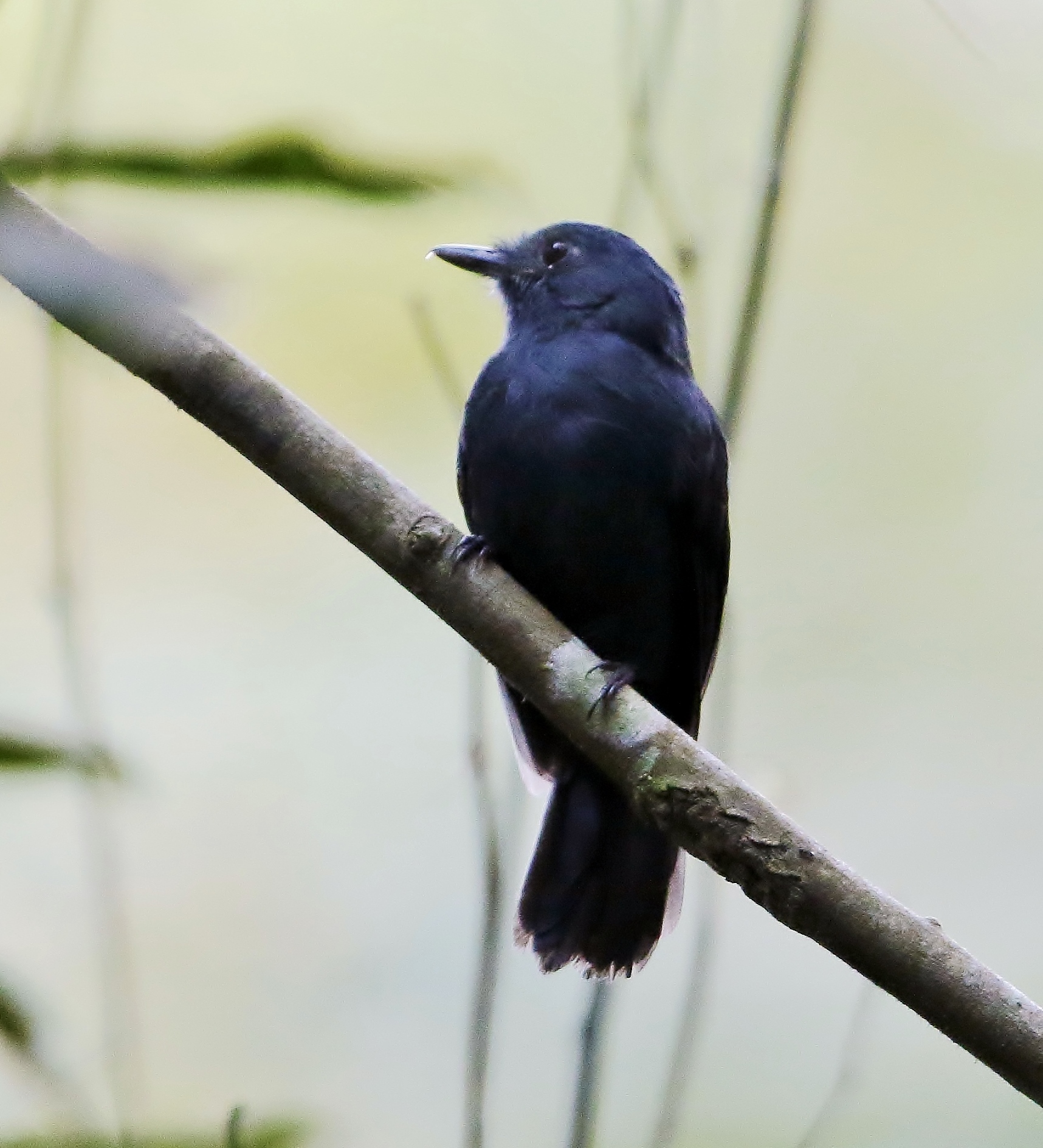 Bluish-slate antshrike (male) at Xapuri, Acre, Brazil